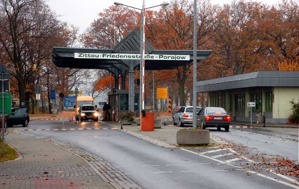 Border crossing from Zittau Friedensstraße (Germany) to Porajow (Poland)